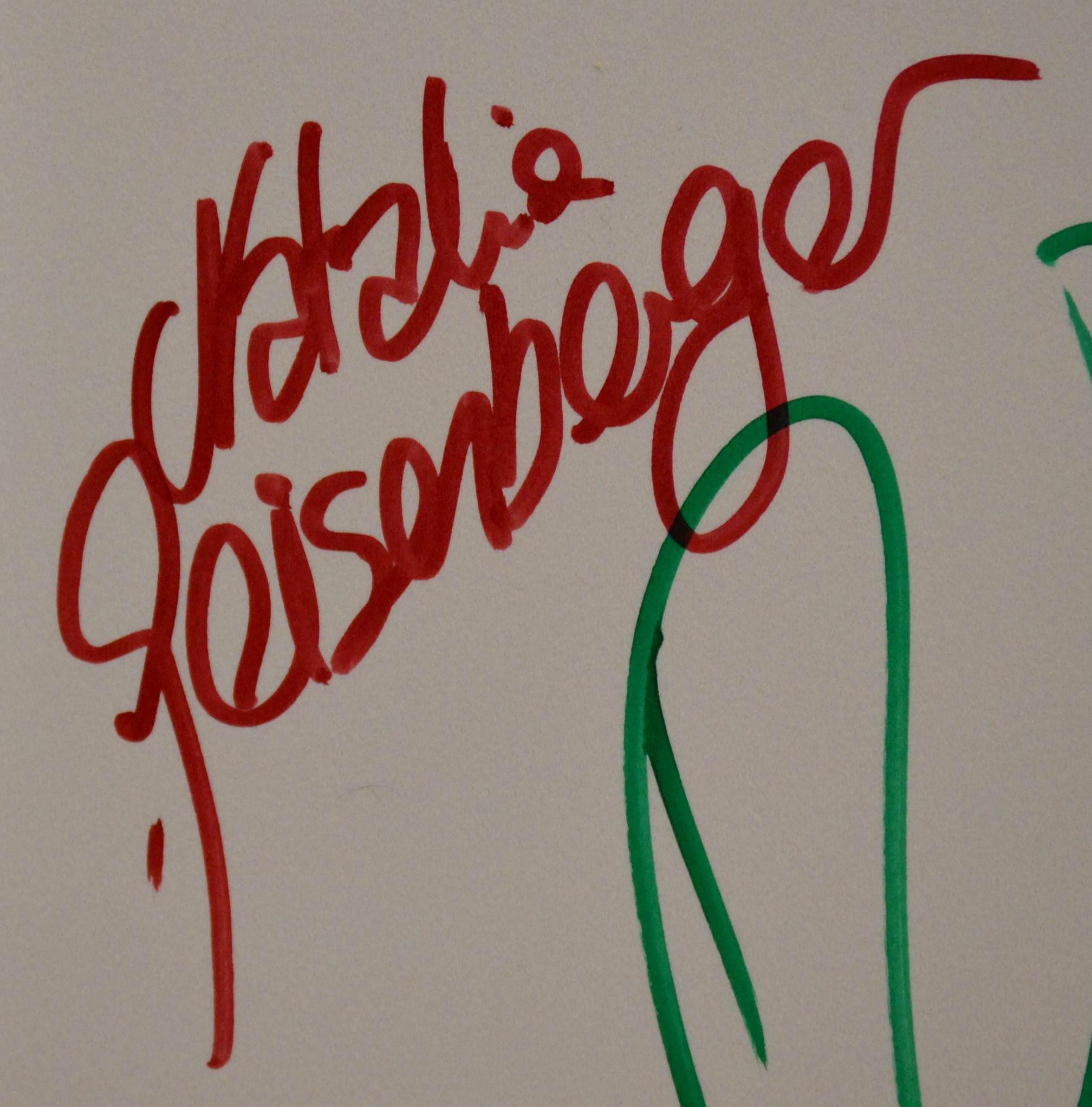 Outfitting the Olympic teams of Germany 2014; Media day January 20th 2014 at Military Airport Erding.